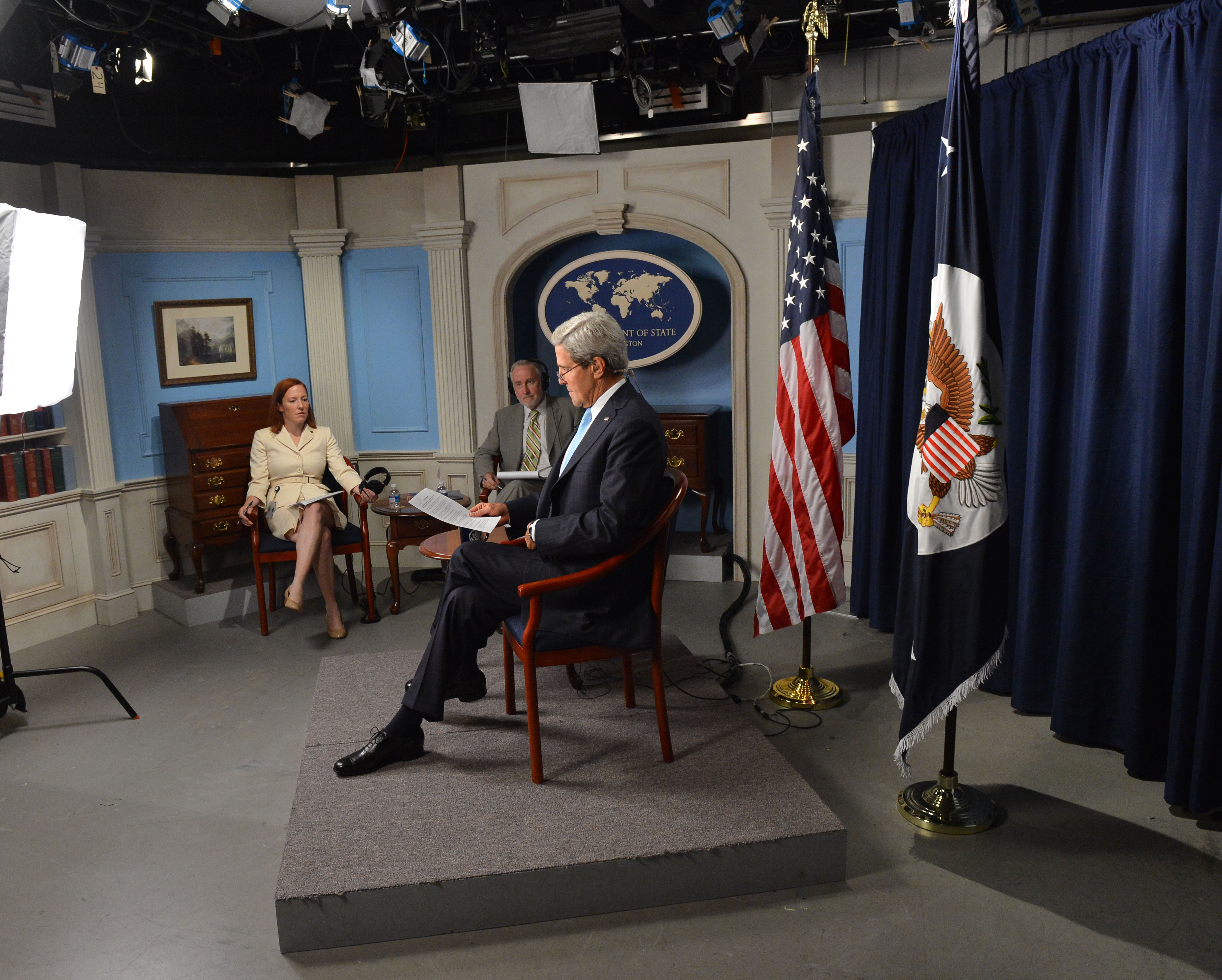 U.S. Secretary of State John Kerry prepares for his Google+ Hangout with the New York Time's Nicholas Kristof and Syria Deeply's Lara Setrakian at the U.S. Department of State in Washington, DC on September 10, 2013. [State Department photo/ Public Domain]